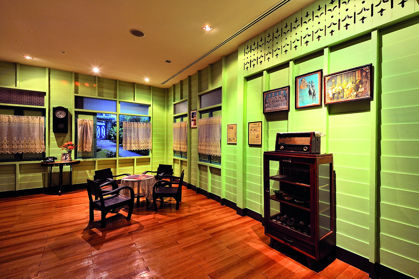 The Golden Jubilee Museum of Agriculture located on an area of 500 rai was founded by the Ministry of Agriculture and Cooperatives on the occasion of King Bhumibol Adulyadej's golden jubilee celebrations in 1996 to be a centre for education about development of traditional Thai Agriculture and modern agricultural technology so as to publicise agriculture-related activities, benevolence, and talent of His Majesty the King. The museum display an exhibition through a use of Magic version technique and 3- dimensional films, covering all aspects, e.g. forestry, fishery, and animal husbandry; plots of rice demonstration fields; a training centre; and a source for education on the royal projects royal projects under interesting themes –“The King Loves Us”, “Amazing Genetics”, “Into the Jungle”, “Water Is Life” etc. The museum provides knowledge which can be translated into practice under the philosophy of sufficiency economy through a joyful learning experience using technologies, models, and simulations. The area outside features demonstrative agricultural plots, rice culture, mushroom cultivation, animal husbandry, vegetable planting in limited space, and production of manure, compost, bioextract, charcoal kiln, charcoal briquettes, wood vinegar), as well as power generation using solar cells. At the front of the buildings is also a market selling safe quality agricultural products from the Golden Jubilee Museum network and the Green Market network.